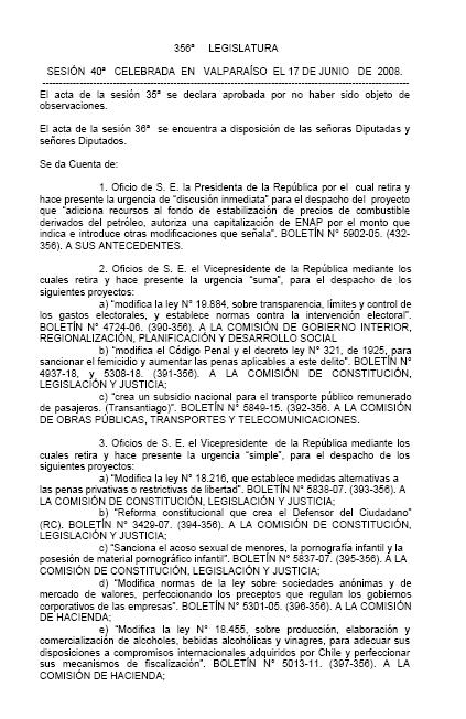 Account